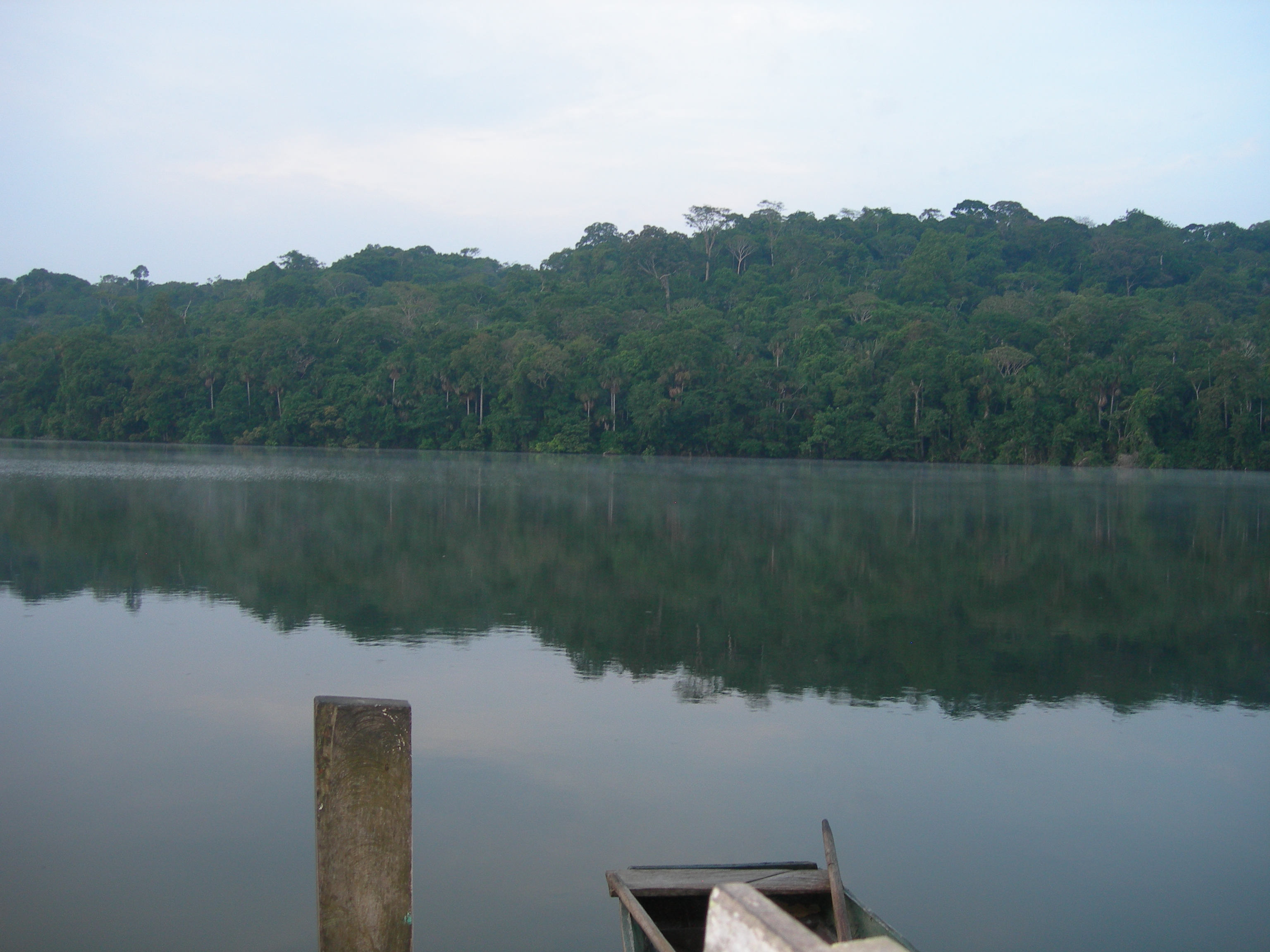 Chalalan Lake, Madidi National Park, Tuichi River, Bolivia from the Chalalan Lodge Jetty. Photographed on 28 November 2008